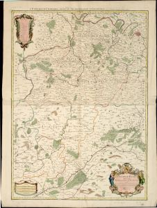 Map of the bishopry of Chartres: Diocese of Blois, in 1706.